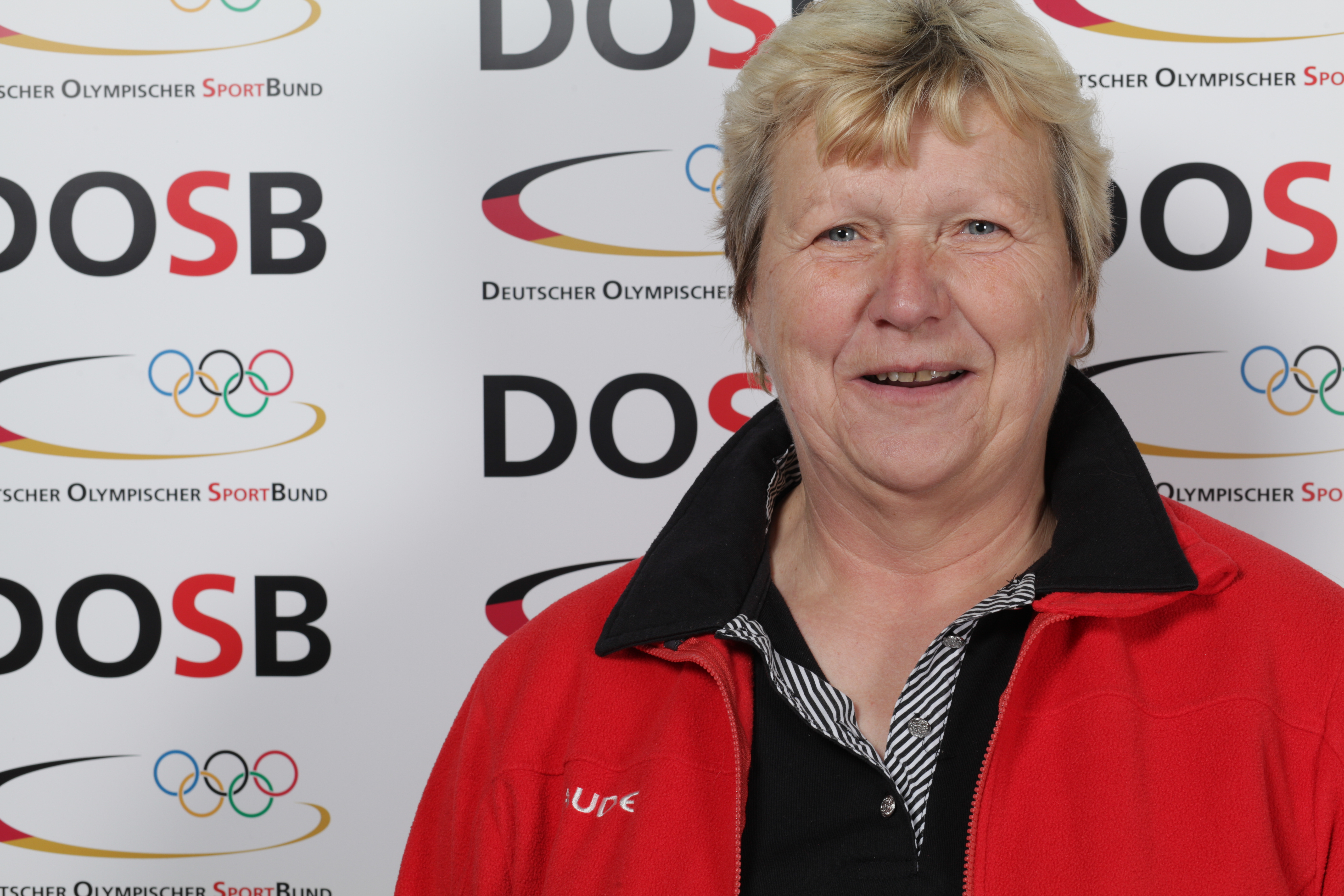 Bundestrainer-Konferenz des DOSBam 6. November 2012 in Leipzig Marcus Cyron Olaf Kosinsky Madonius Steschke Dieses Foto entstand aufgrund einer Zusammenarbeit mit dem DOSB. Personality rights warningAlthough this work is freely licensed or in the public domain, the person(s) shown may have rights that legally restrict certain re-uses unless those depicted consent to such uses. In these cases, a model release or other evidence of consent could protect you from infringement claims.